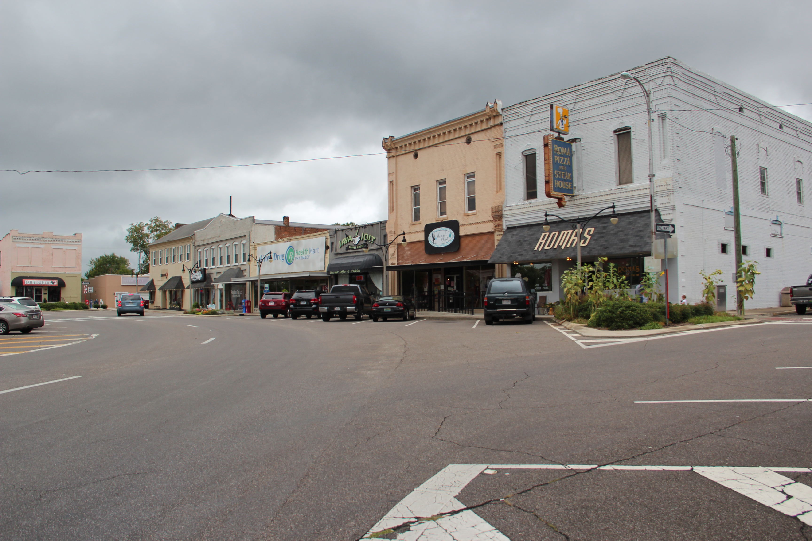 Stores in Jacksonville, Alabama